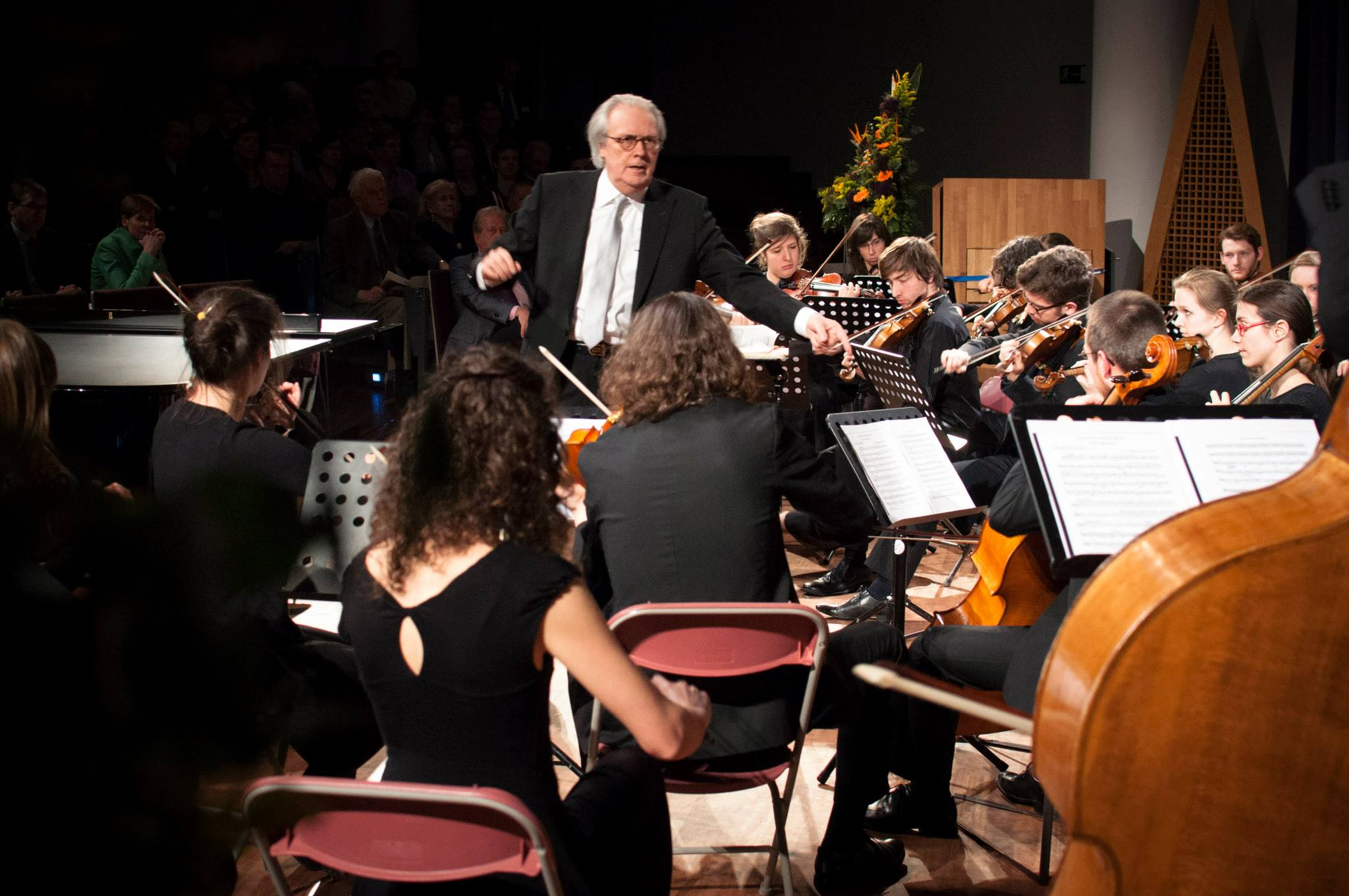 Conductor Kees Bakels with Frascati Symphonic in Leuven